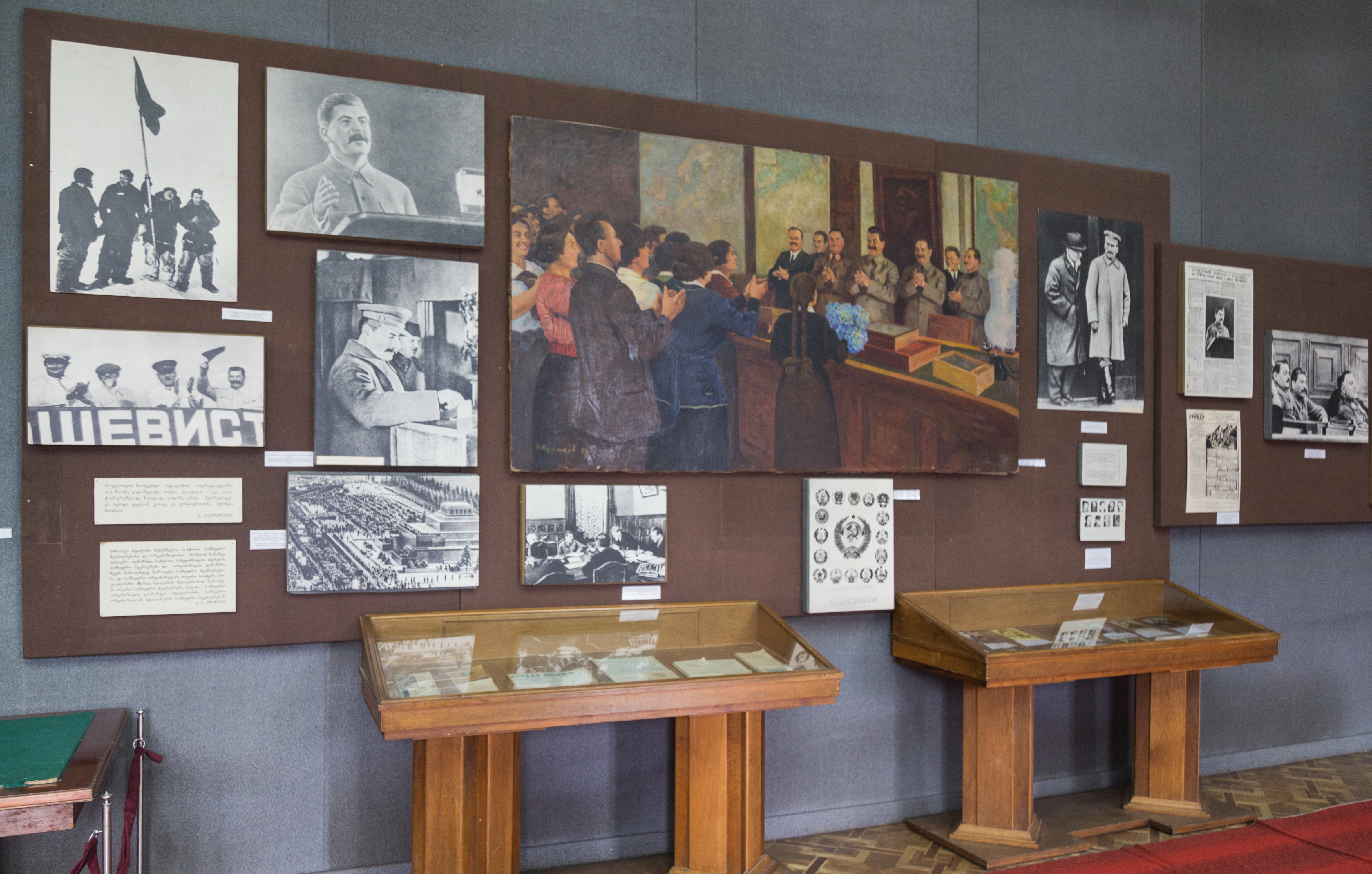 Joseph Stalin Museum. Gori, Shida Kartli, Georgia.